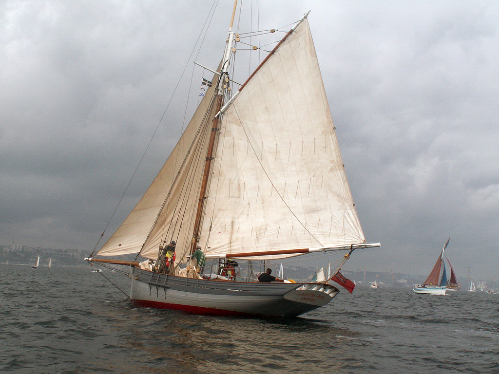 Wooden pilot cutter (built in 1998) and charter vessel Lizzie May at Brest 2008